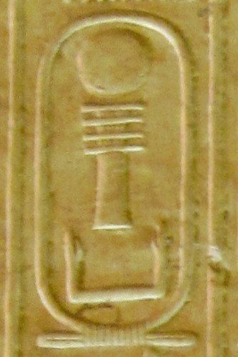 Cartouche 32, Abydos King List. Temple of Seti I, Abydos, Egypt